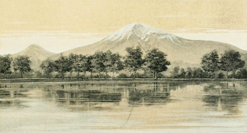 original caption: "Ararat from the lake at Edgmiatsin"